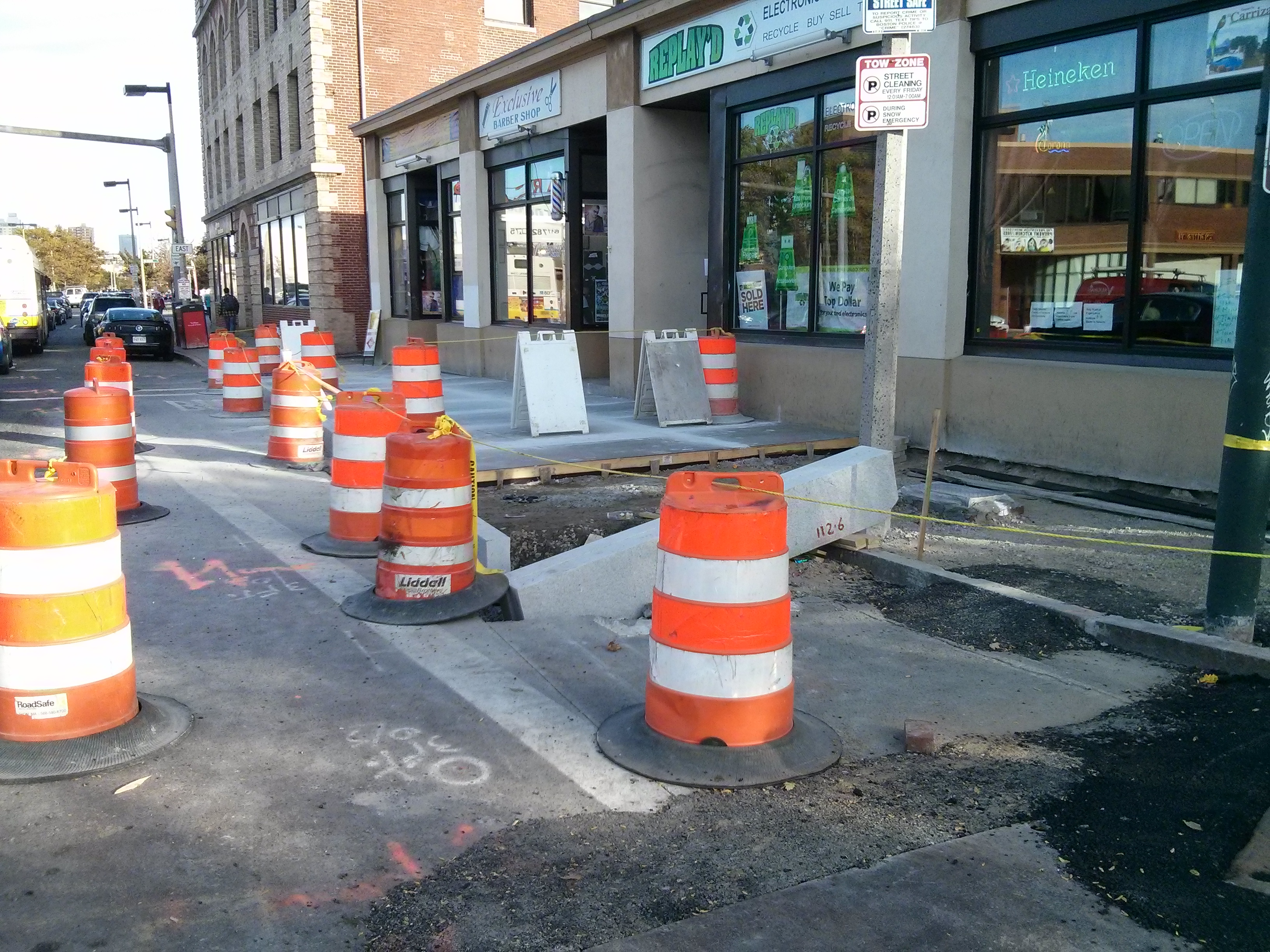 Construction of bus stop curb extension for the 57 and 66 routes eastbound at Union Square